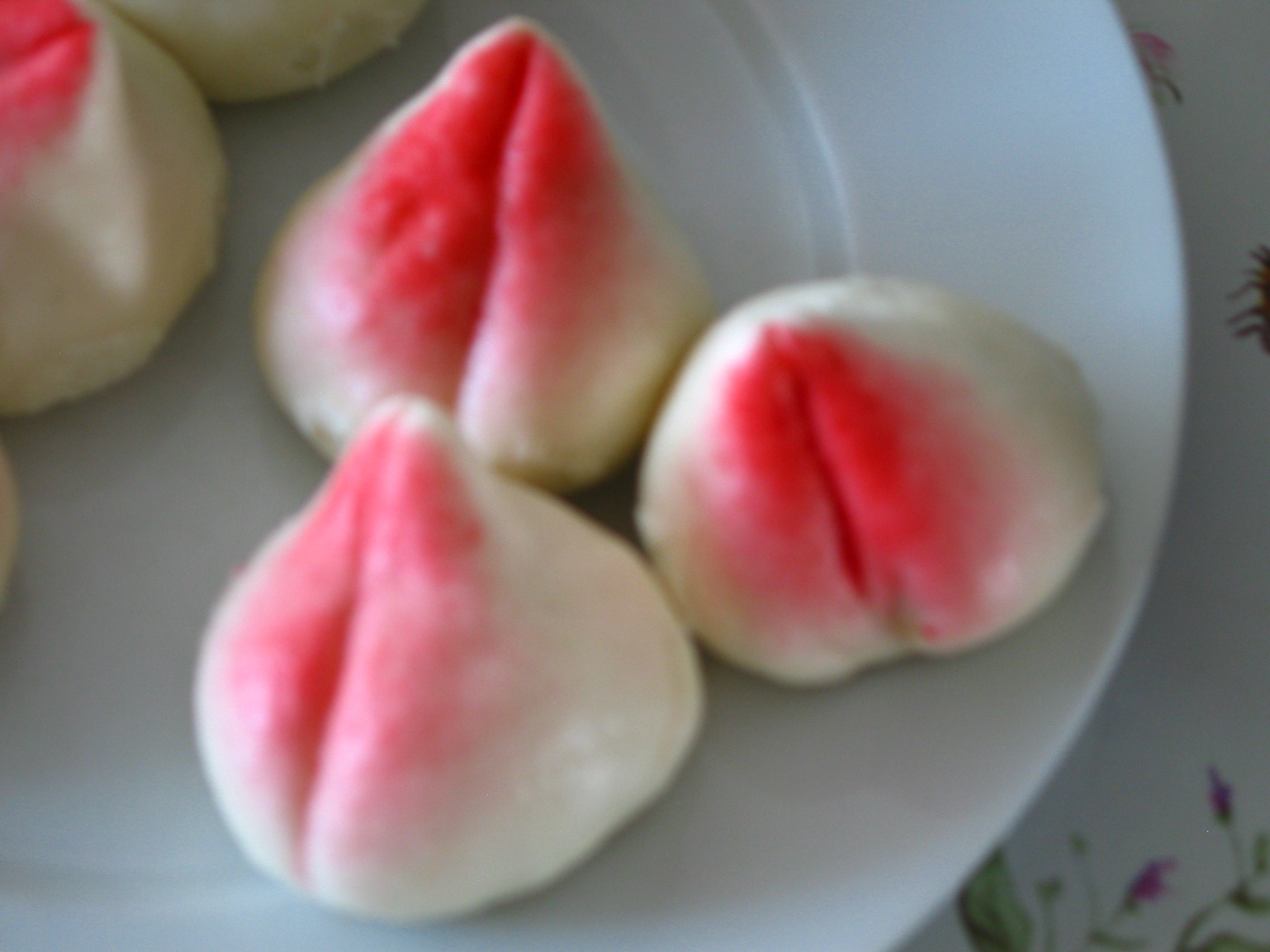 three shoubao's